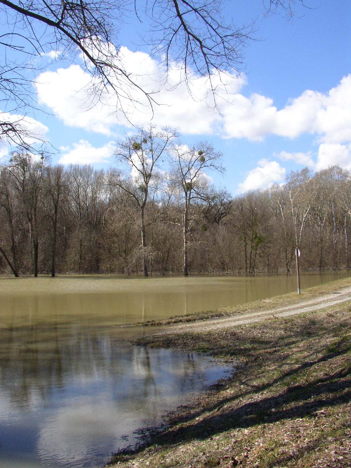 Flooded landscape in spring, Donau-Auen National Park between Schoenau and Orth an der Donau